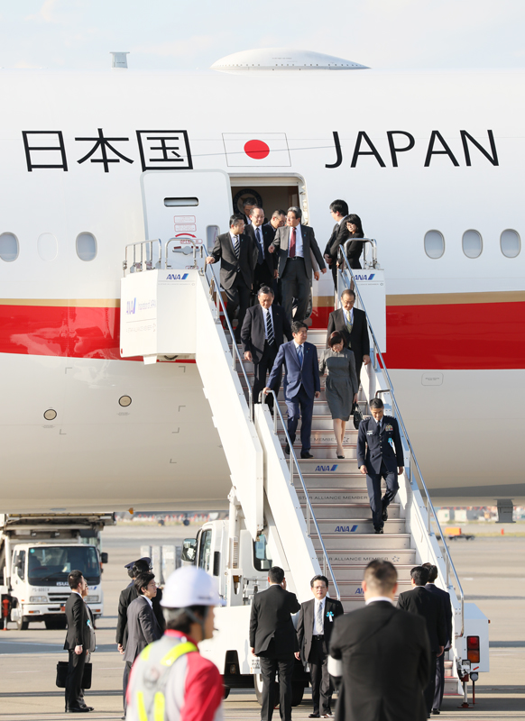 Prime Minister of Japan Shinzō Abe and his wife Akie Abe after inspecting the new Japanese Air Force One at Haneda Airport.